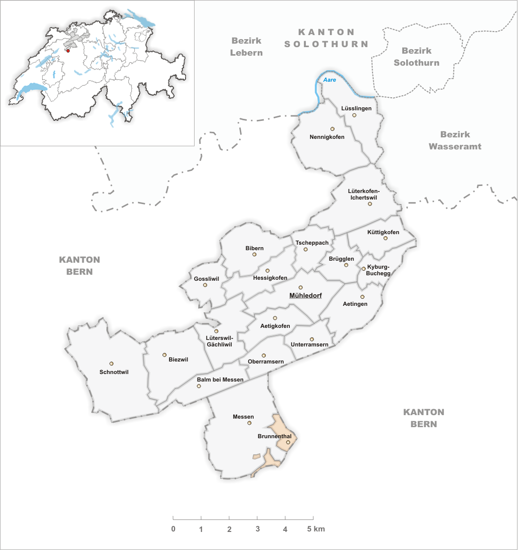 Municipality Brunnenthal